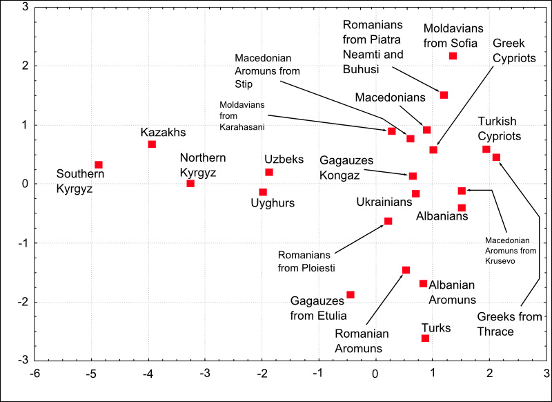 Genetic affinities among southeastern European and Central Asian populations. Derived from "Varzari et al. (2007)", "Figure 5.5". This is a two dimensional result of multidimensional chart, different dimensions will give close but different results.